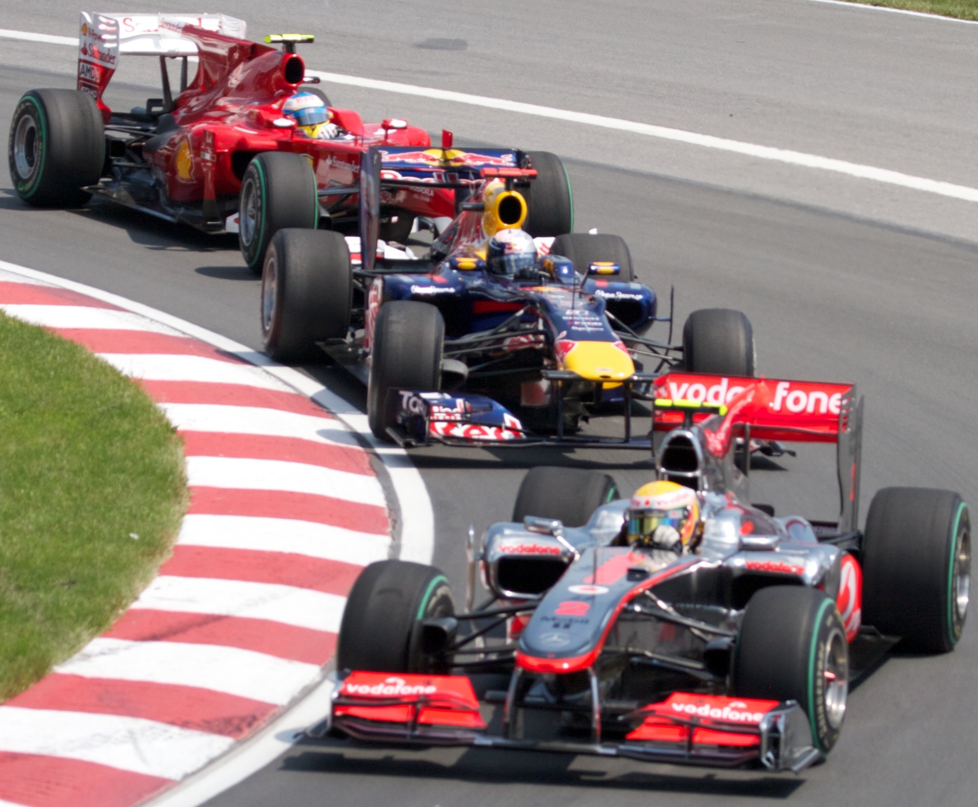 Formula One 2010 Rd.8 Canadian GP: Lewis Hamilton (McLaren), Sebastian Vettel (Red Bull Racing), and Fernando Alonso (Ferrari) on opening lap of the race.